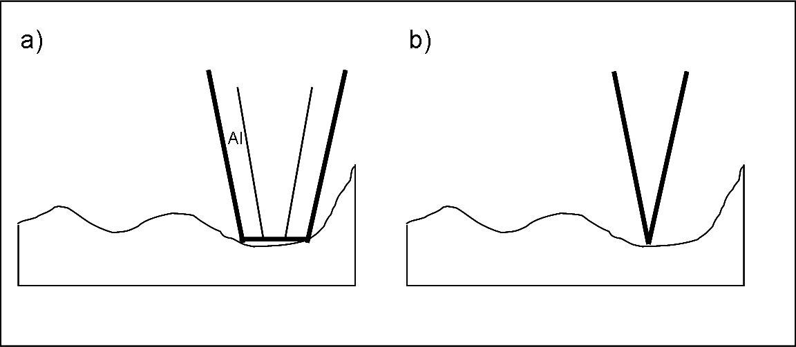 G. Kaupp. Atomic Force Microscopy, Scanning Nearfield Optical Microscopy and Nanoscratching: Application to Rough and Natural Surfaces. Heidelberg: Springer, 2006.